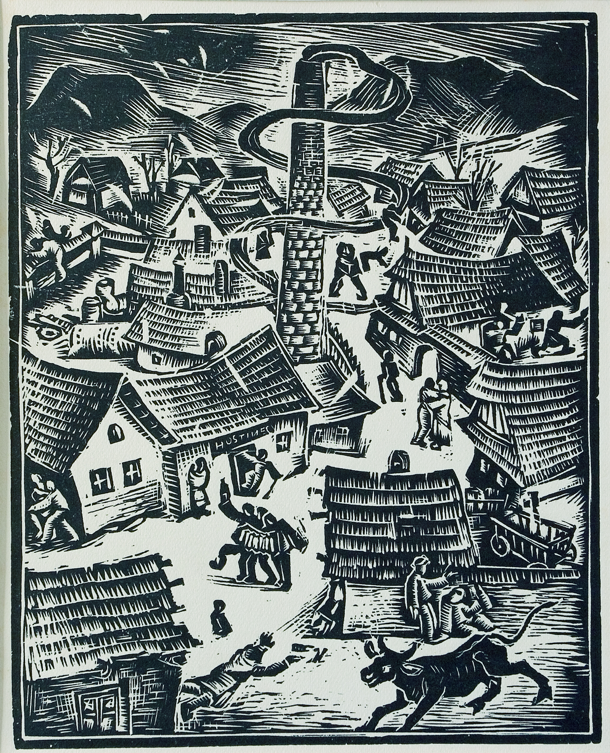 Woodcut, Drunken village, Gallery Dolny Kubin.